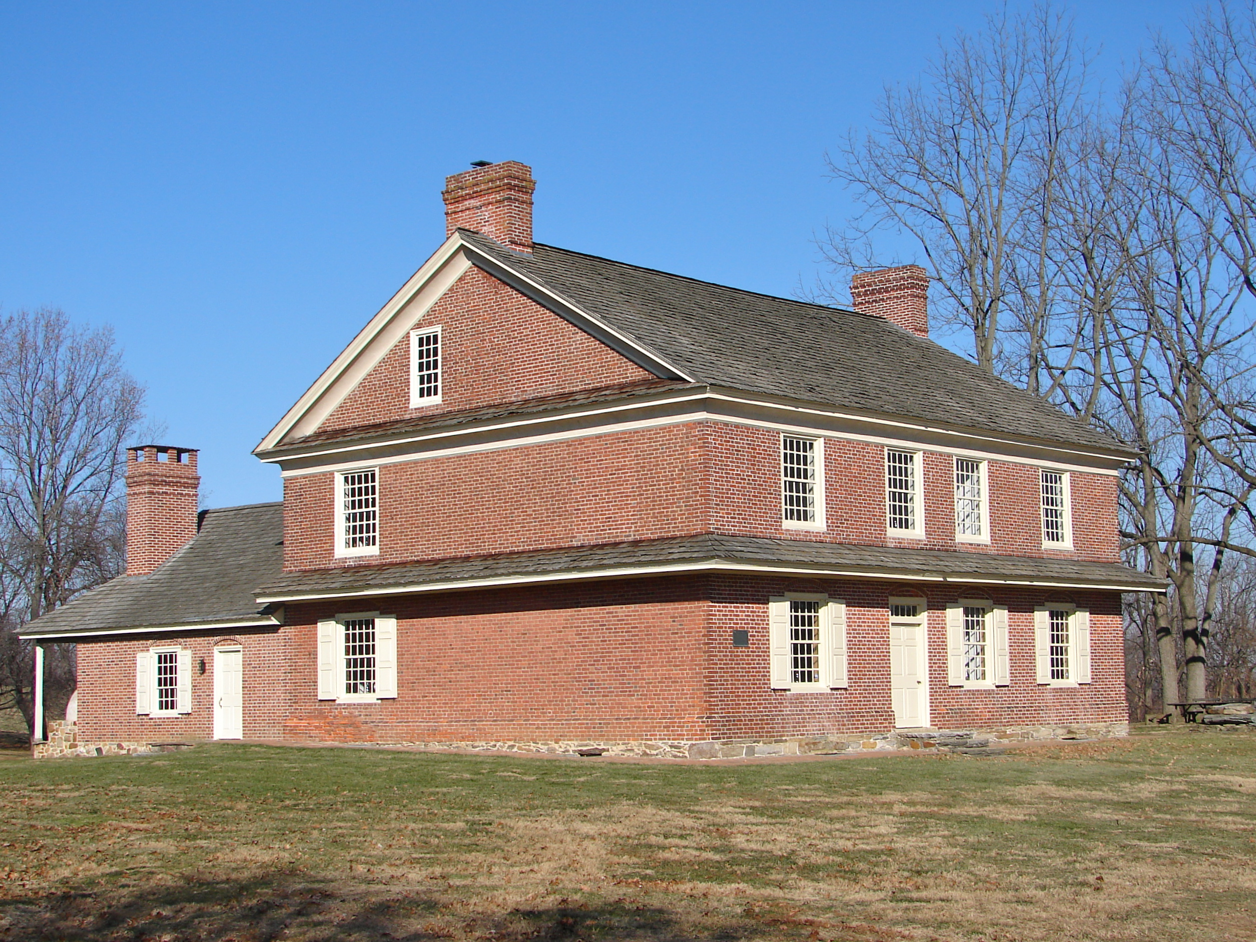 Primitive Hall — located in the countryside, 2 miles (3.2 km) northwest of Chatham on Pennsylvania Route 841, in West Marlborough Township, Chester County. Built 1738 and owned by same family (Pennocks) until 1960, at which point a family foundation took over and owns it still. On the NRHP since March 19, 1975.